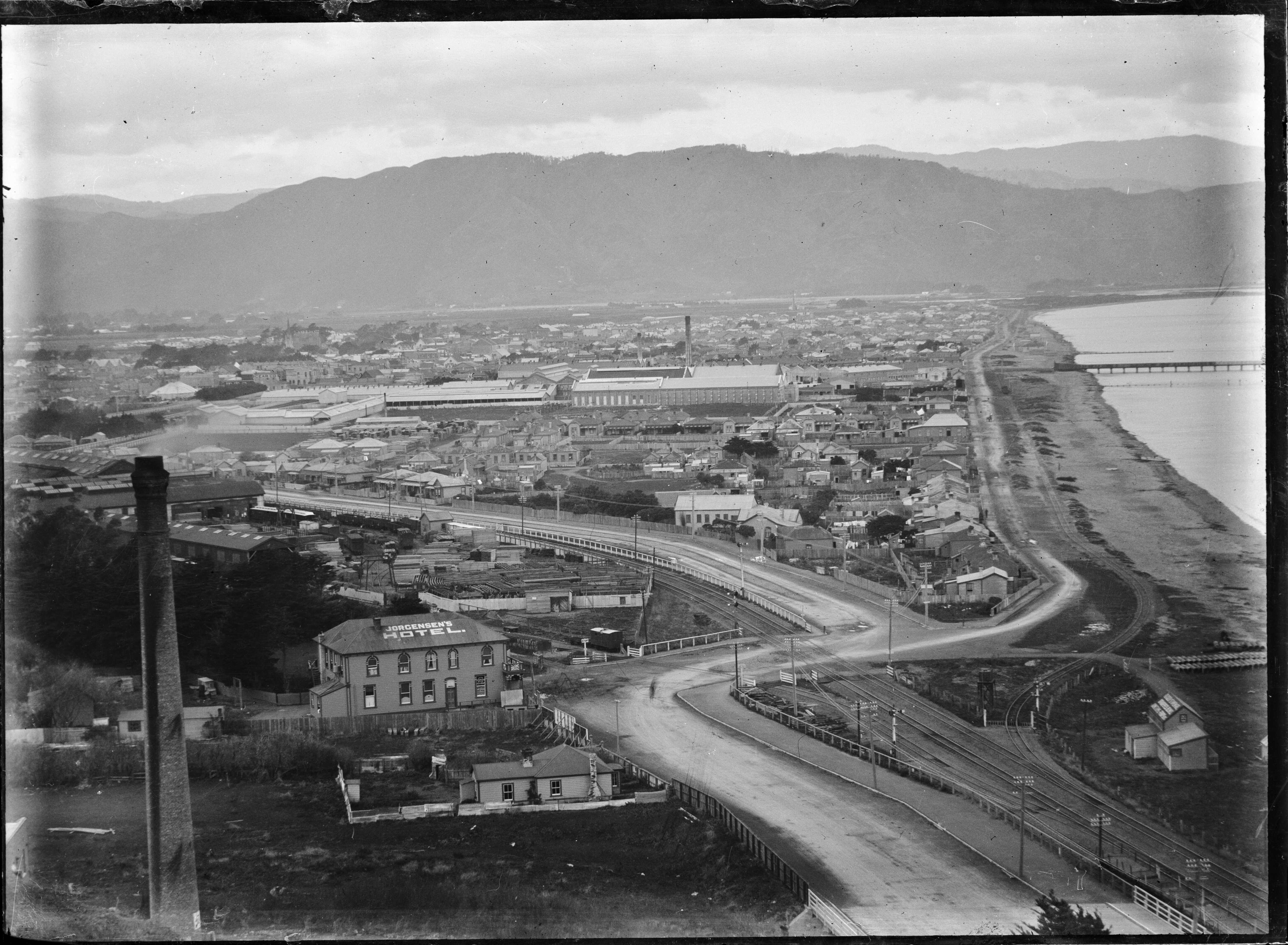 View overlooking Petone in 1911, looking east from the hill above the woollen mills. Jorgensen's Hotel and the Gear Meat Company are both visible. Photograph taken by Albert Percy Godber.